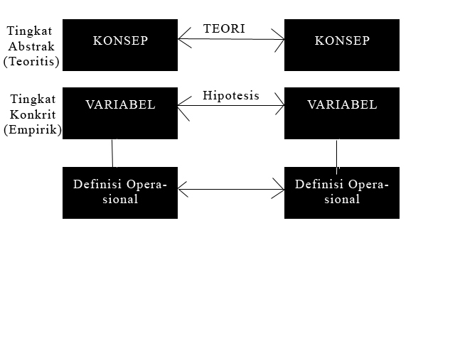 I created this picture by adobe photoshop